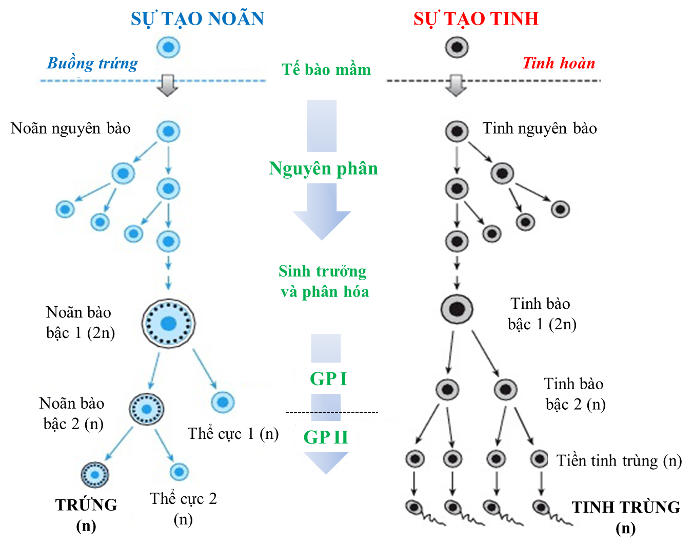 Schematic diagram gametogenesis in animal.